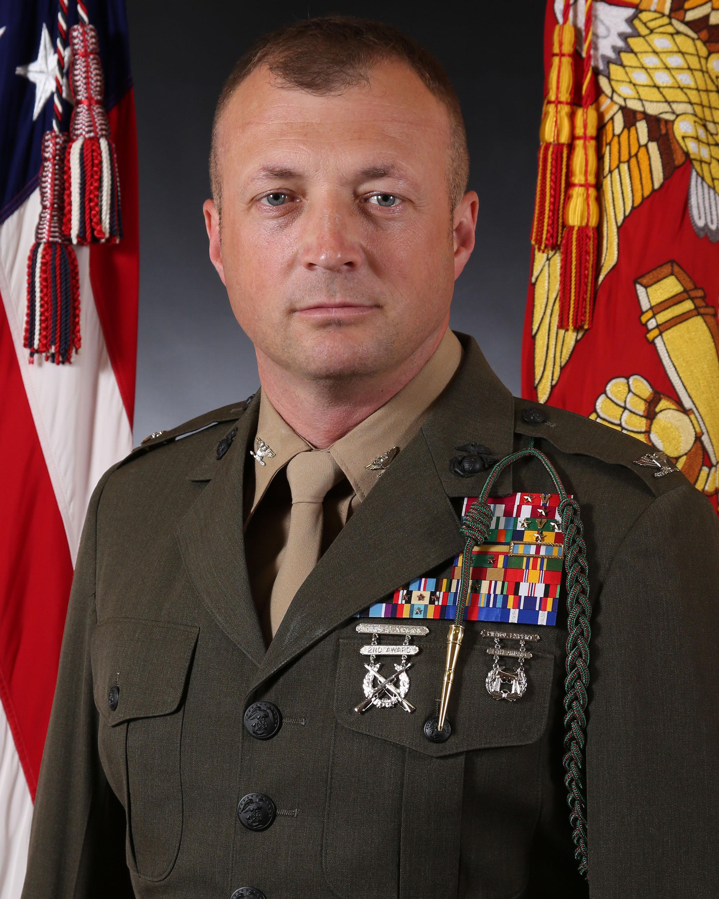 Colonel Matthew S. Reid, USMC